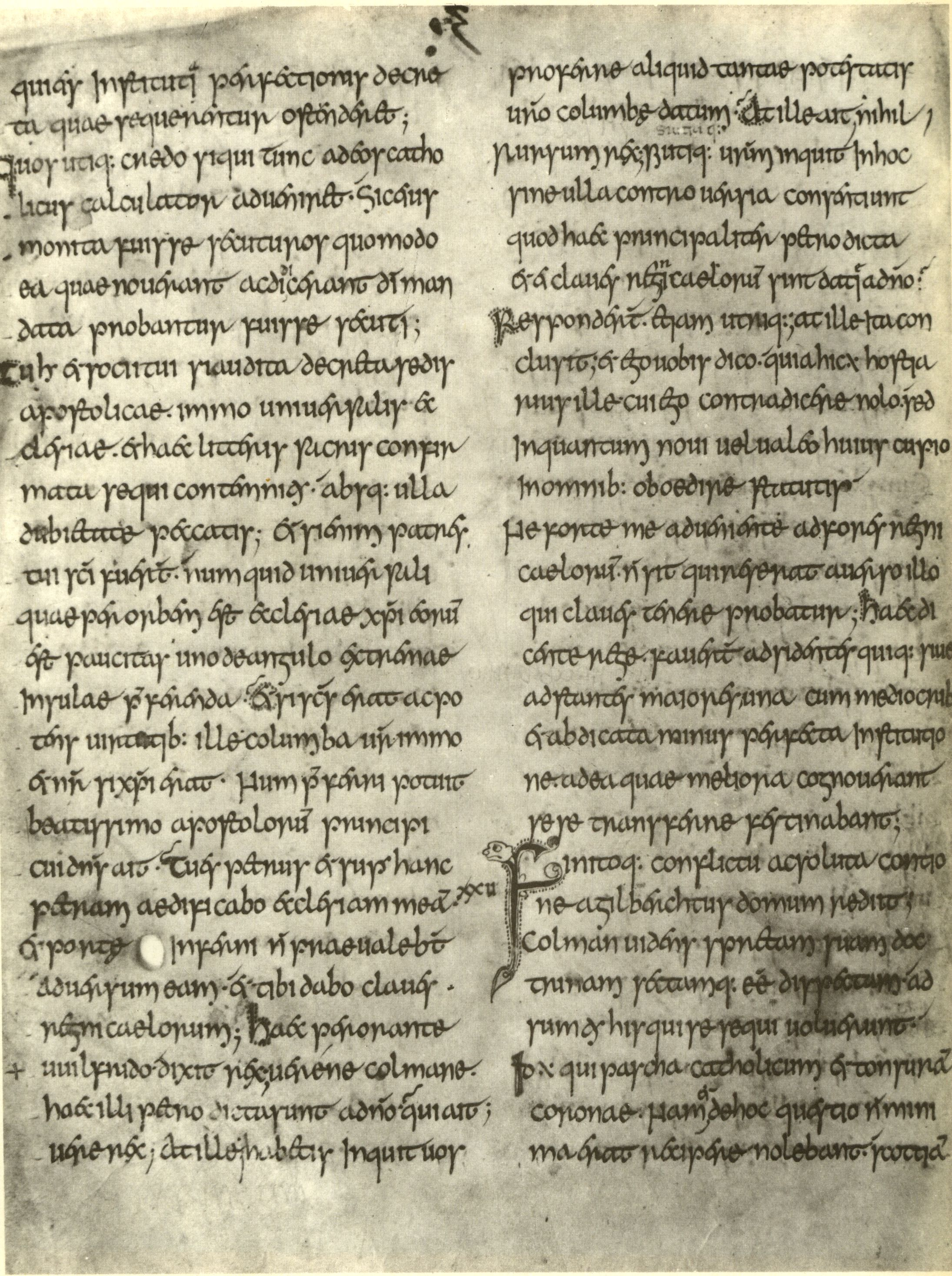 Bede, Ecclesiastical History of the English People in Anglo-Saxon Script. Manuscript London, British Library, Cotton Tiberius C II, fol. 87v.